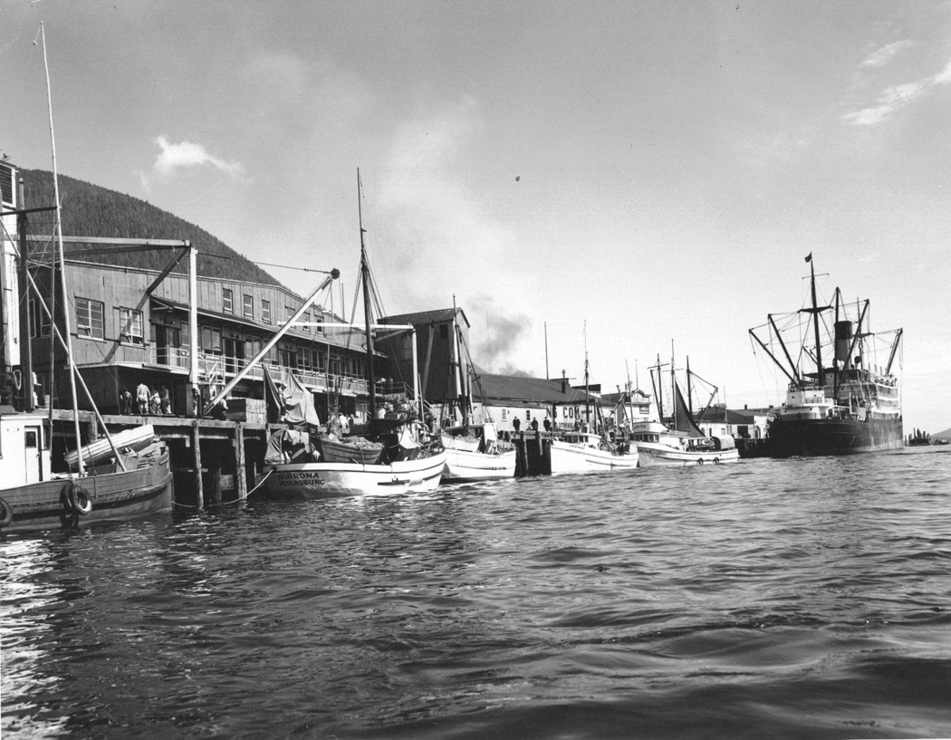 Title Ketchikan Waterfront Fishing fleet at Ketchikan. FWS keywords: Southeast Alaska, Fishes, Industries, Commercial Fishing' ARLIS, Alaska U.S. Fish and Wildlife Service Date of Original 1947-07-01 Source FWS-350 Rights Public domain